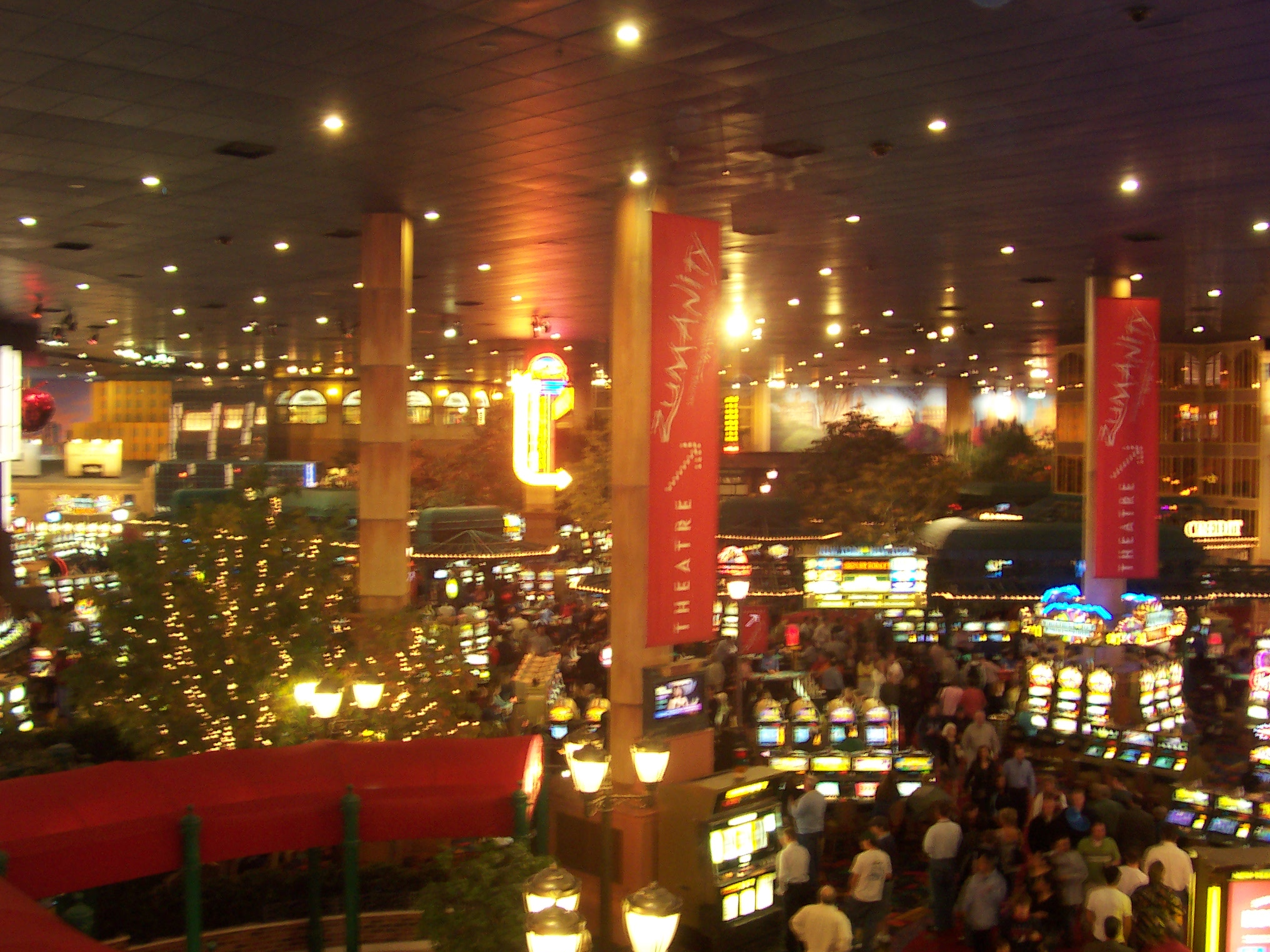 New York-New York Hotel & Casino in Las Vegas taken March 23, 2005 by User:Michael180 with a Kodak EasyShare CX6330.